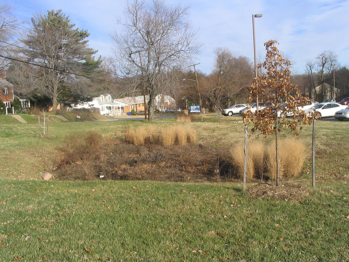 View of a bioretention cell, also called a rain garden, in the United States. Plants are in winter dormancy. Rain garden is designed to treat polluted stormwater runoff from an adjacent parking lot. Dennis Ave Health Center, Wheaton, MD